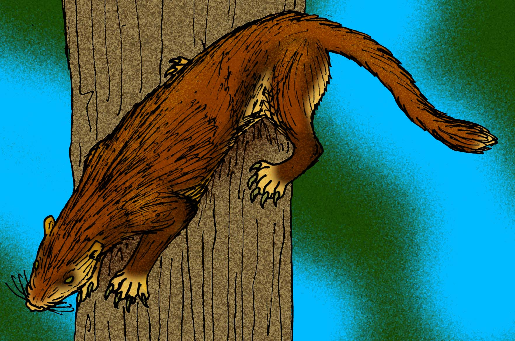 Reconstruction of the squirrel-like condylarth Hyopsodus